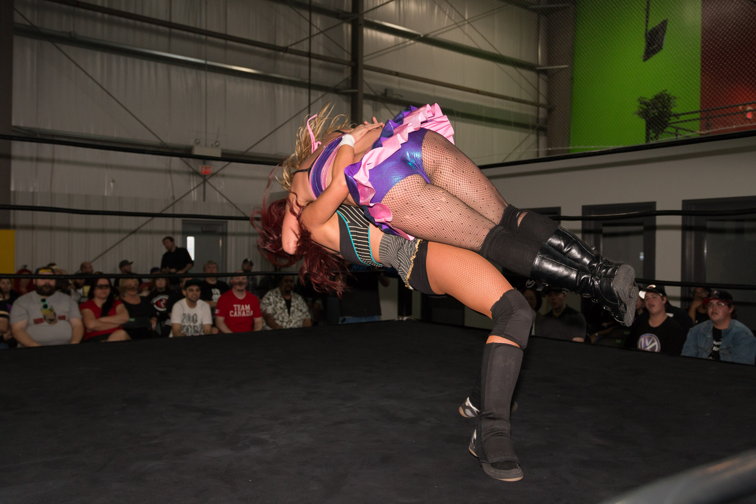 Veda Scott executing a saito suplex on Jewells Malone at Smash Wrestling's The Usual Suspects show at the Canlan Sportsplex in Mississauga, ON